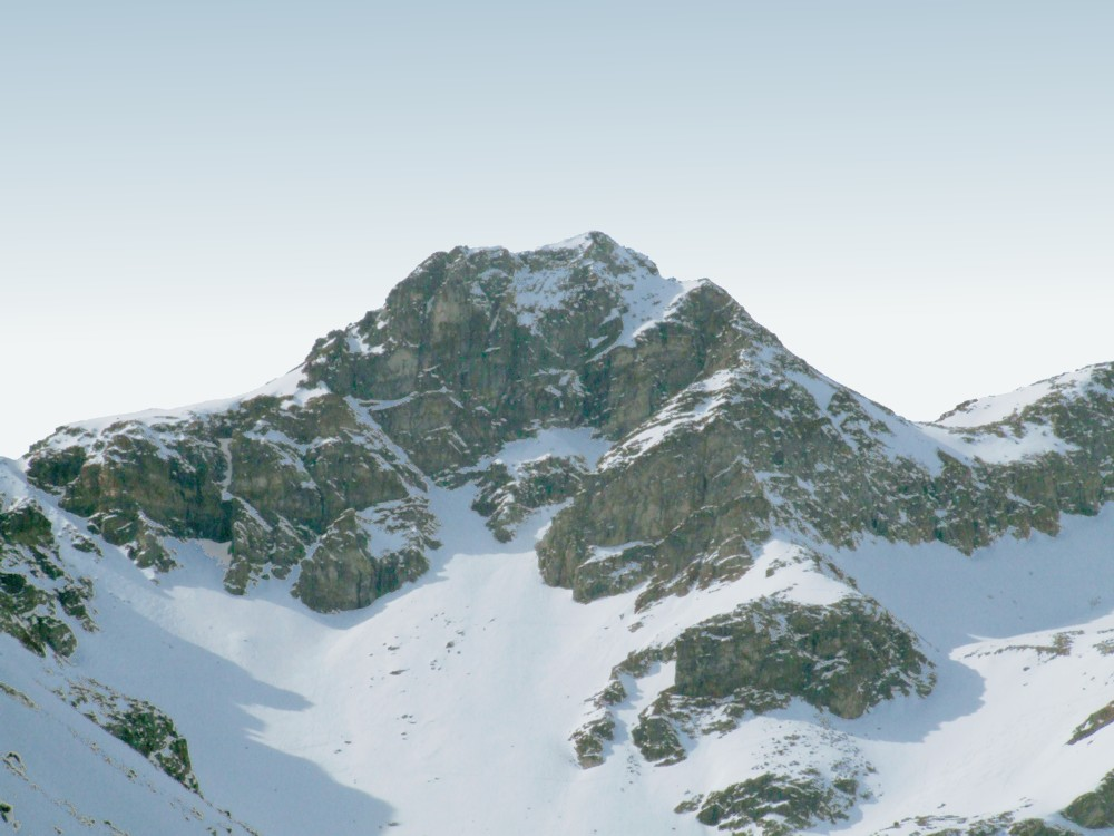 Stolemberg (3202 m) seen from the Bocchetta delle Pisse